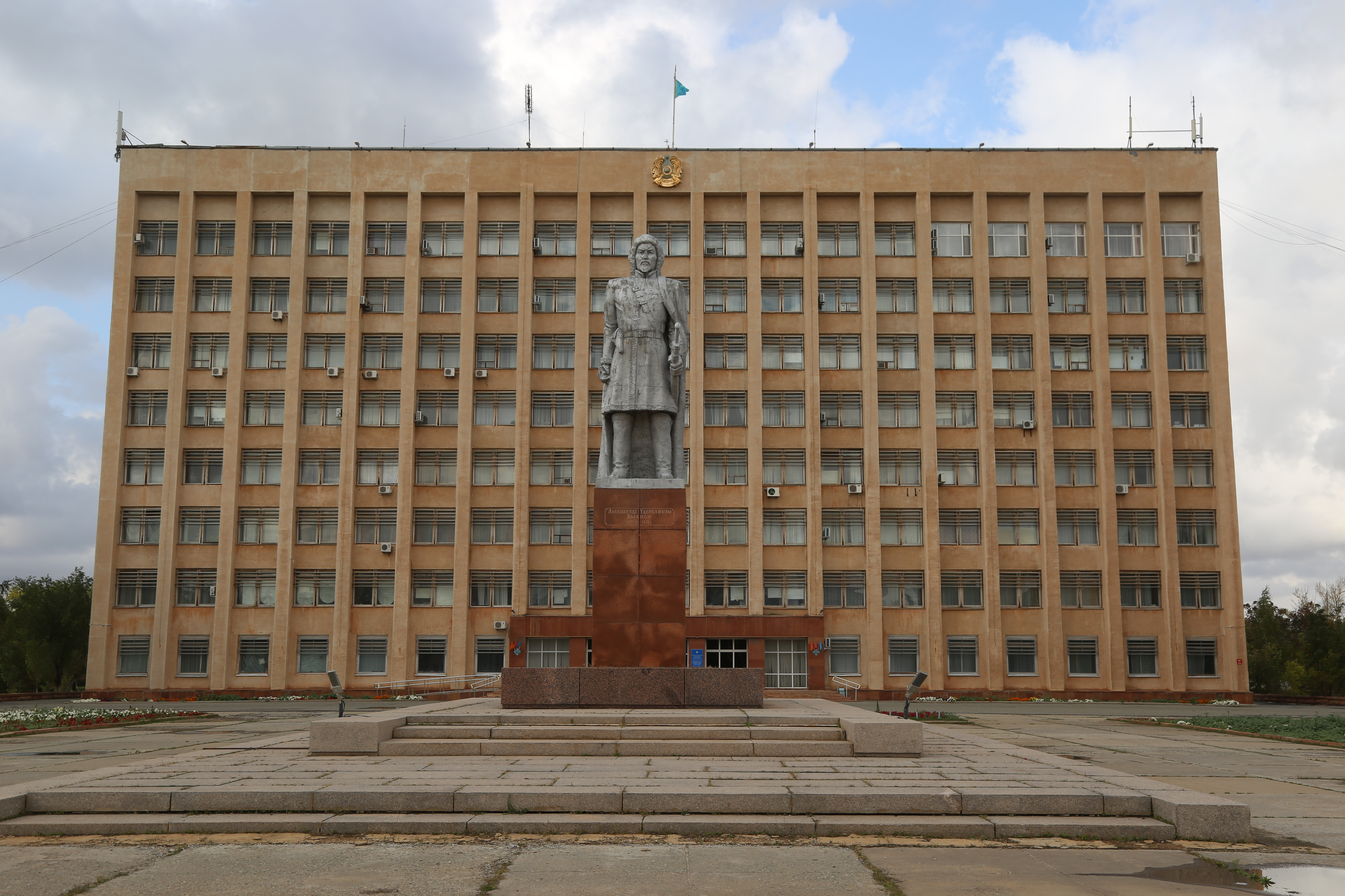 Arkalyk City Hall